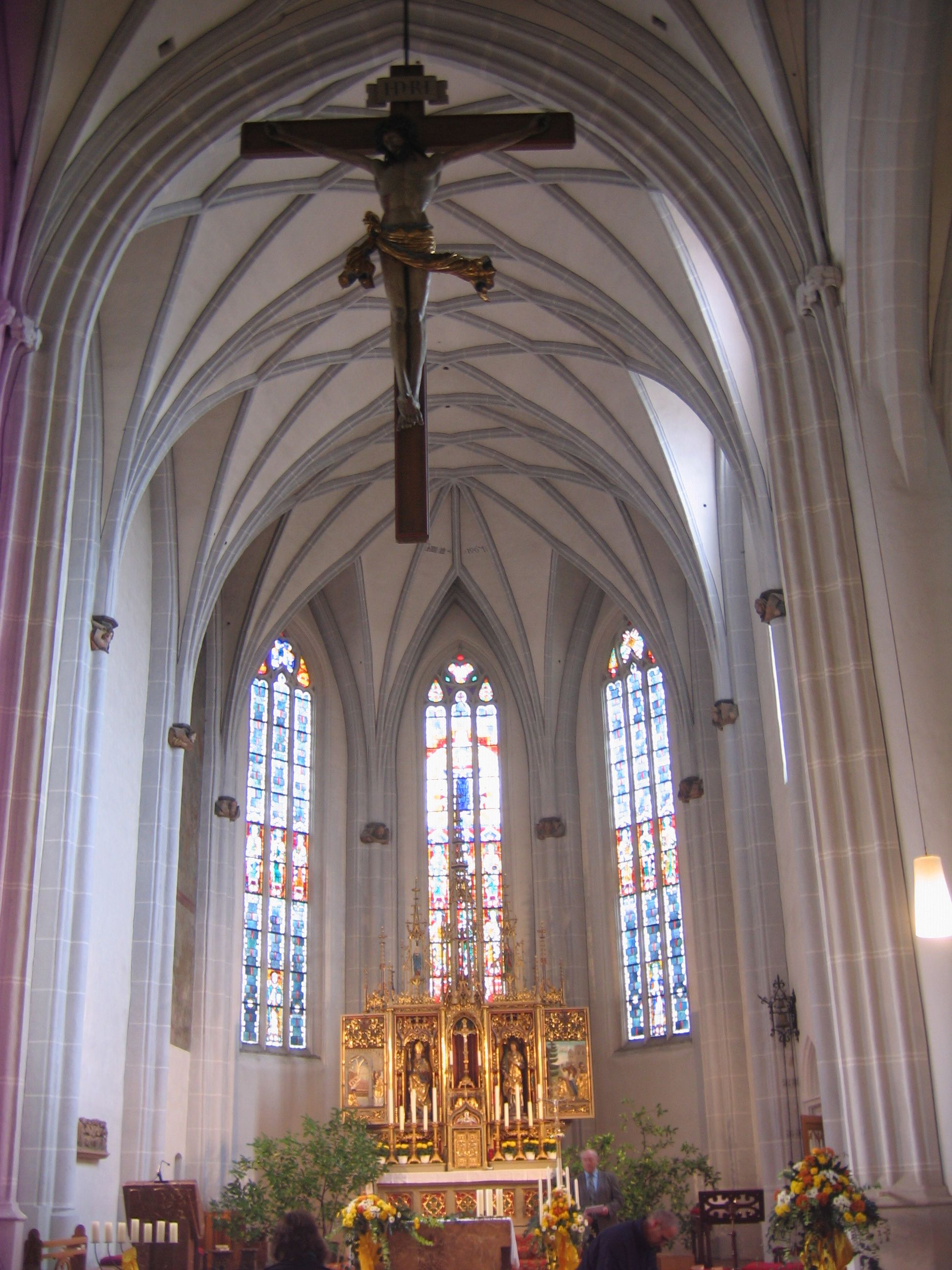 rc church Eggenfelden (Bavaria, Germany)